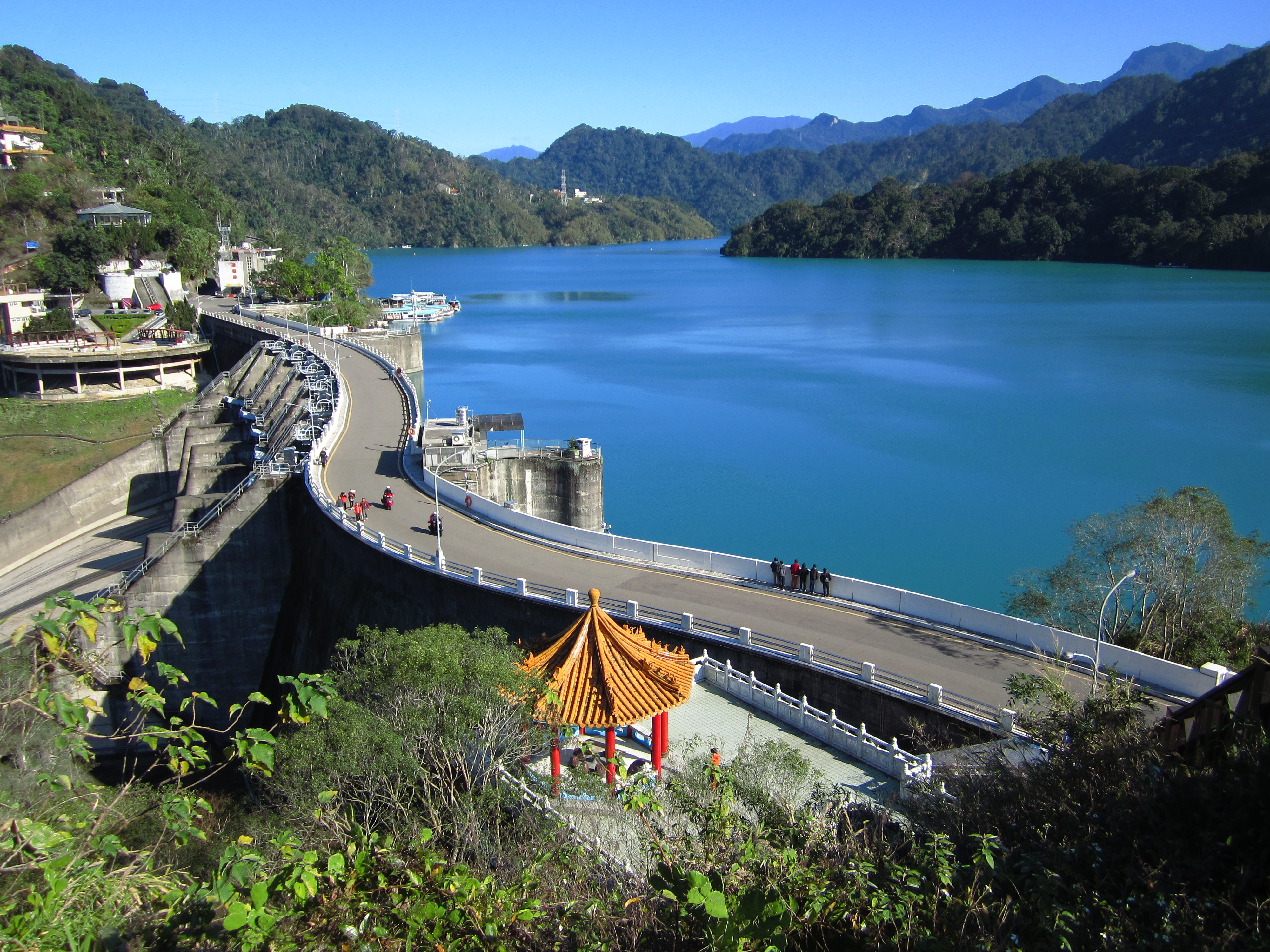 View of the Shimen Dam from scenic overlook, with the reservoir nearly full.